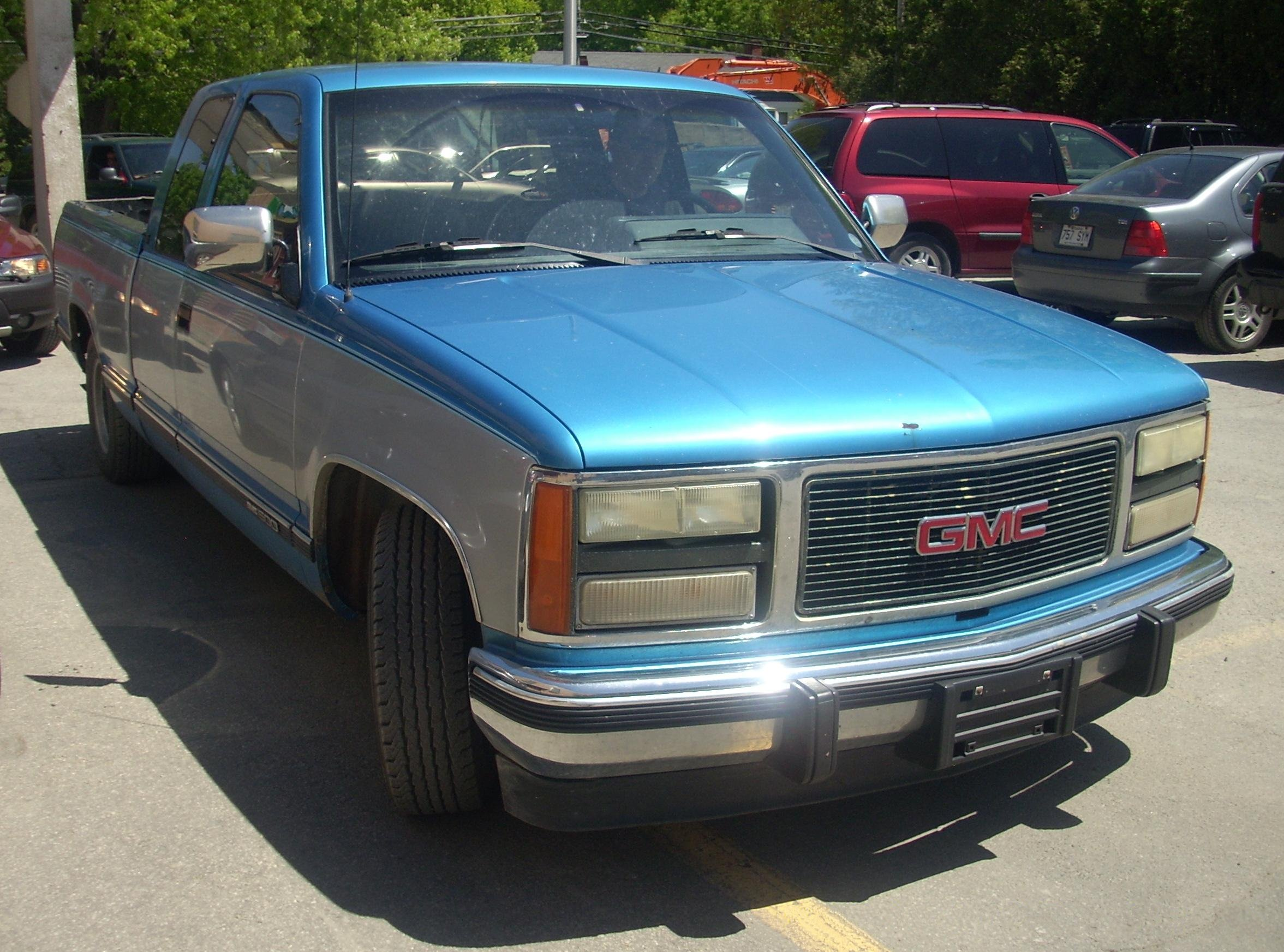 GMC Sierra C/K photographed at the 2008 Hudson British Car Show